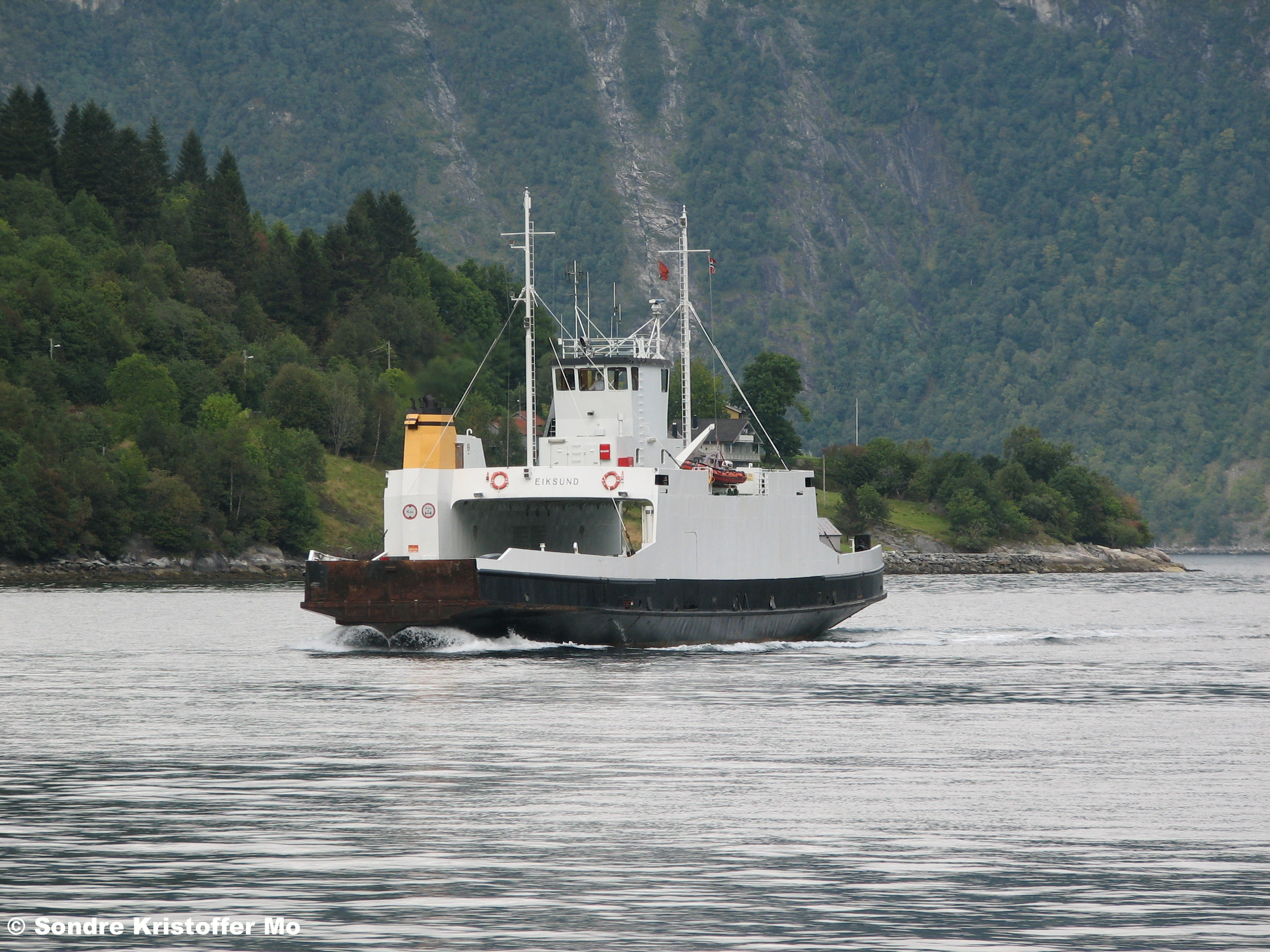 The local ferry Eiksund on Hjørundfjorden, Norway